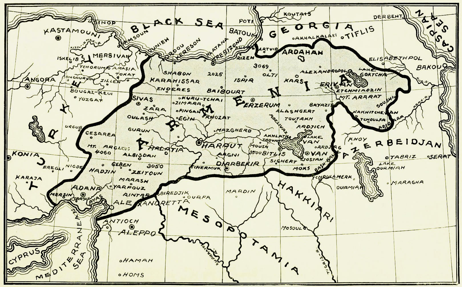 According to the terms of a Memorandum officially presented by the Armenian National Delegation to the Peace Conference in Paris, 1919. From "America as Mandatary for Armenia", New York, 1919